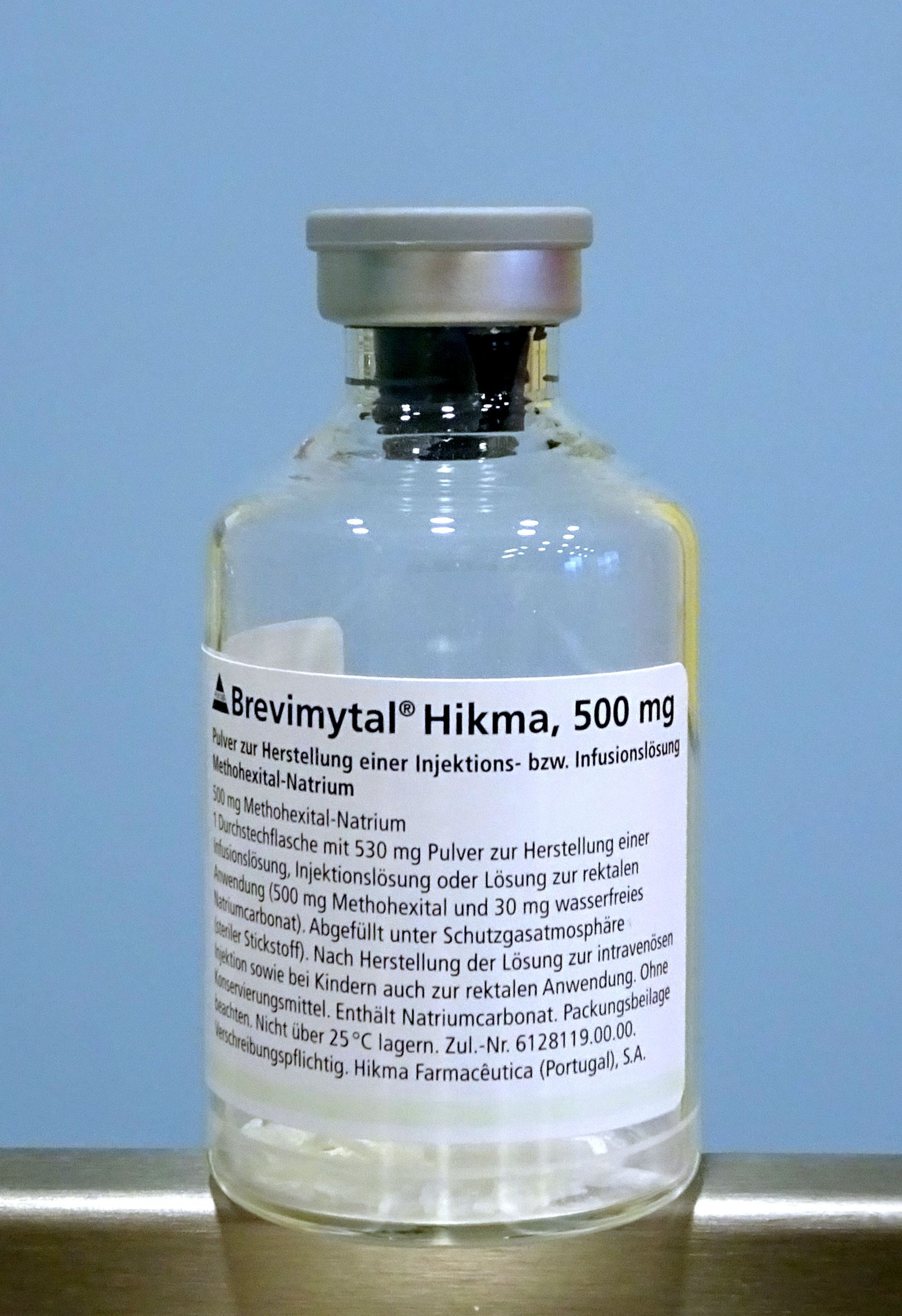 Glass Vial containing 500 mg of Methohexital as dry substance